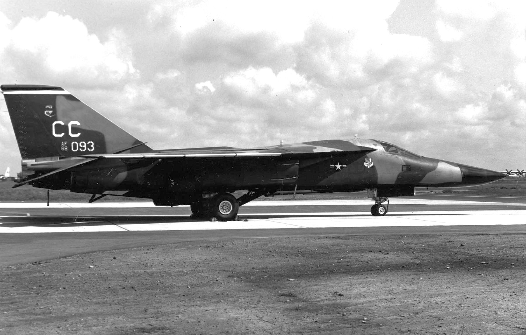 27th Tactical Fighter Wing - General Dynamics F-111D - 68-093